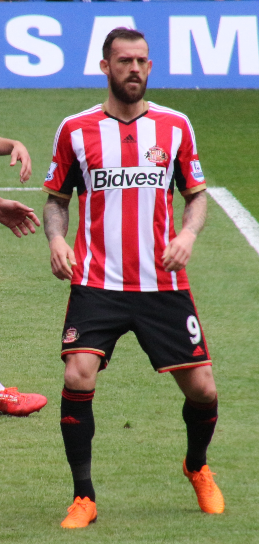 Chelsea 3 Sunderland 1 Champions!